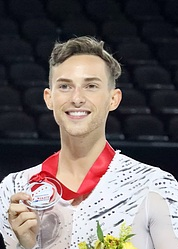 he men's podium at the 2014 Skate America. From left: Jason Brown (2nd); Shoma Uno (1st); Adam Rippon (3rd).